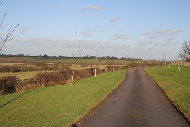 Countryside near Old Ingarsby, Leicestershire. A public bridleway follows this private road leading to Cold Newton Lodge.